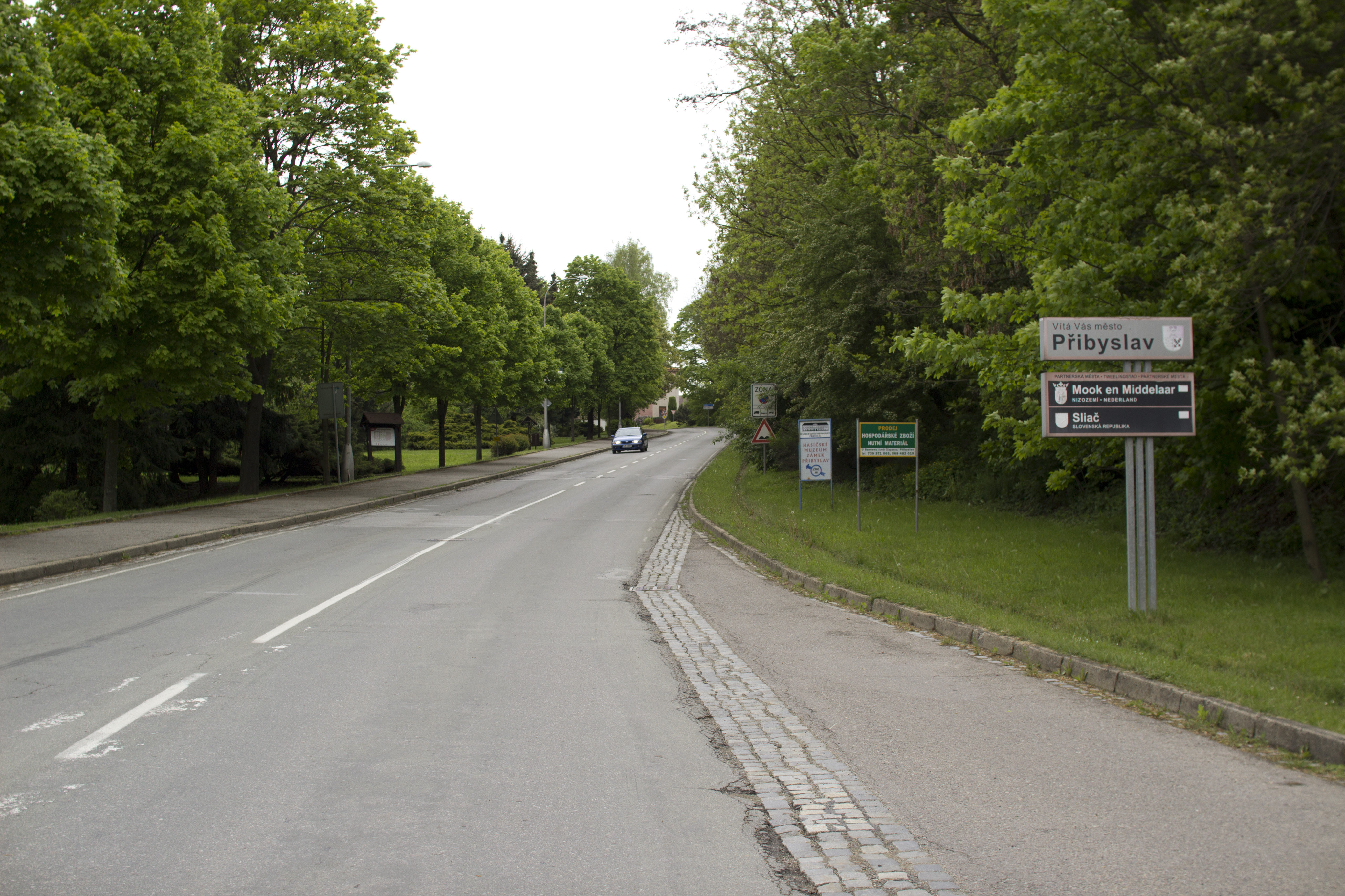 Přibyslav, Havlíčkův Brod District, Vysočina Region, Czech Republic